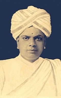 T. Subba Row (1856-1890)